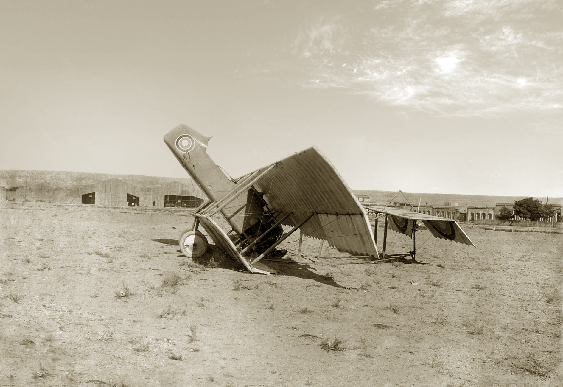 Naval Aviation Officer's School in Baku.